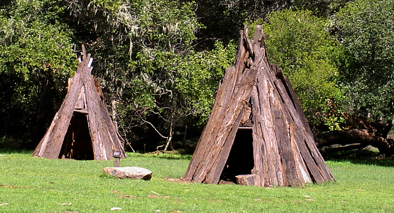 The Kule Loklo site within the Point Reyes National Seashore.